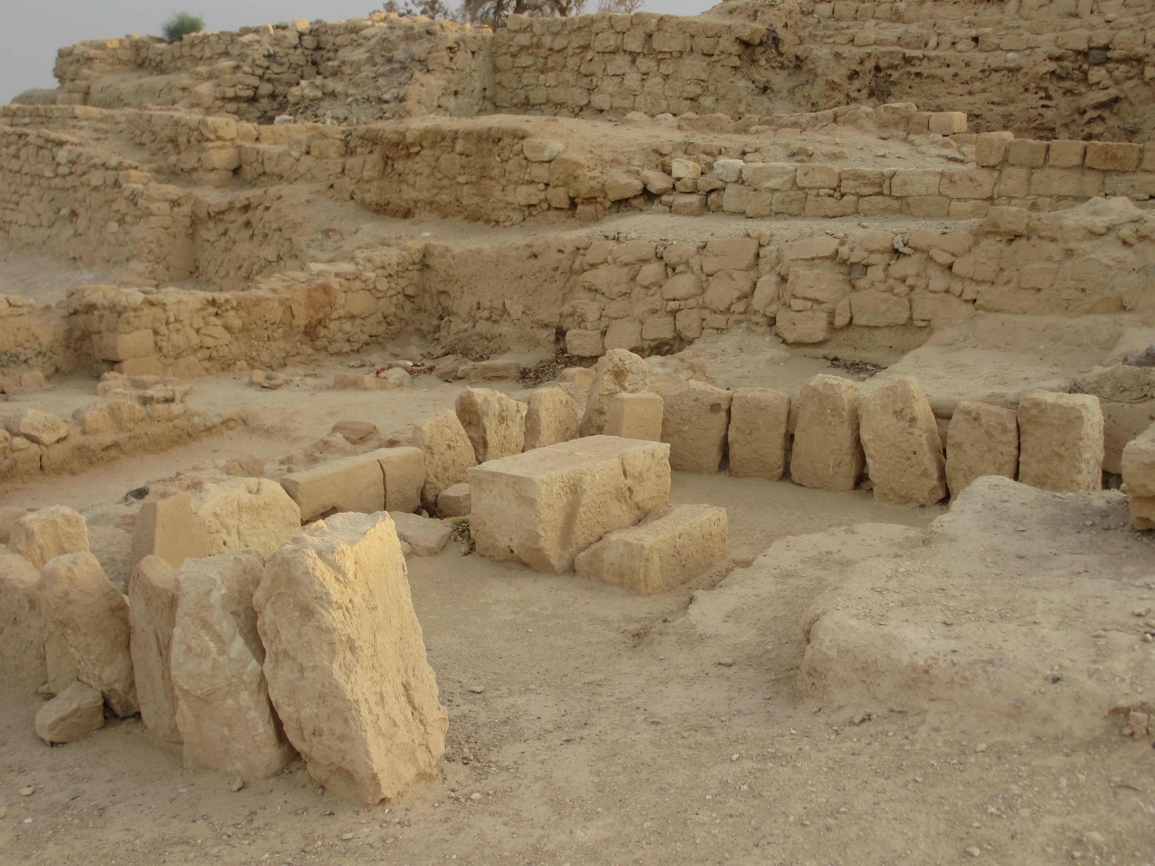 Edomite shrine in Metsad Hazeva (biblical Tamar), Neguev, Israel (7th-6th BCE)